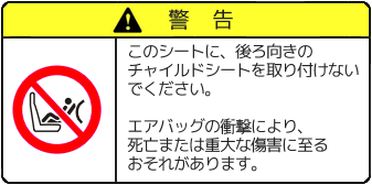 Passenger Airbag Caution Label